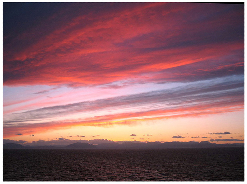 Sirte Gulf - Libya 2004